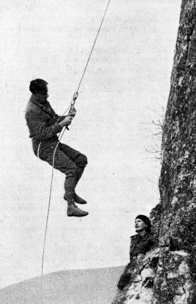 Kessler's carabinerbrake when using